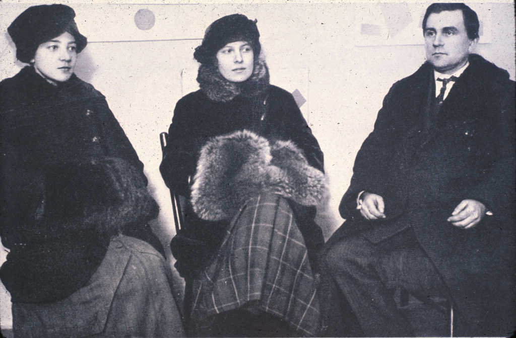 Olga Rozanova, Kseniya Boguslavskaya and Kazimir Malevich at the Last Futurist Exhibition of Paintings 0,10, 1915-16 Petrograd